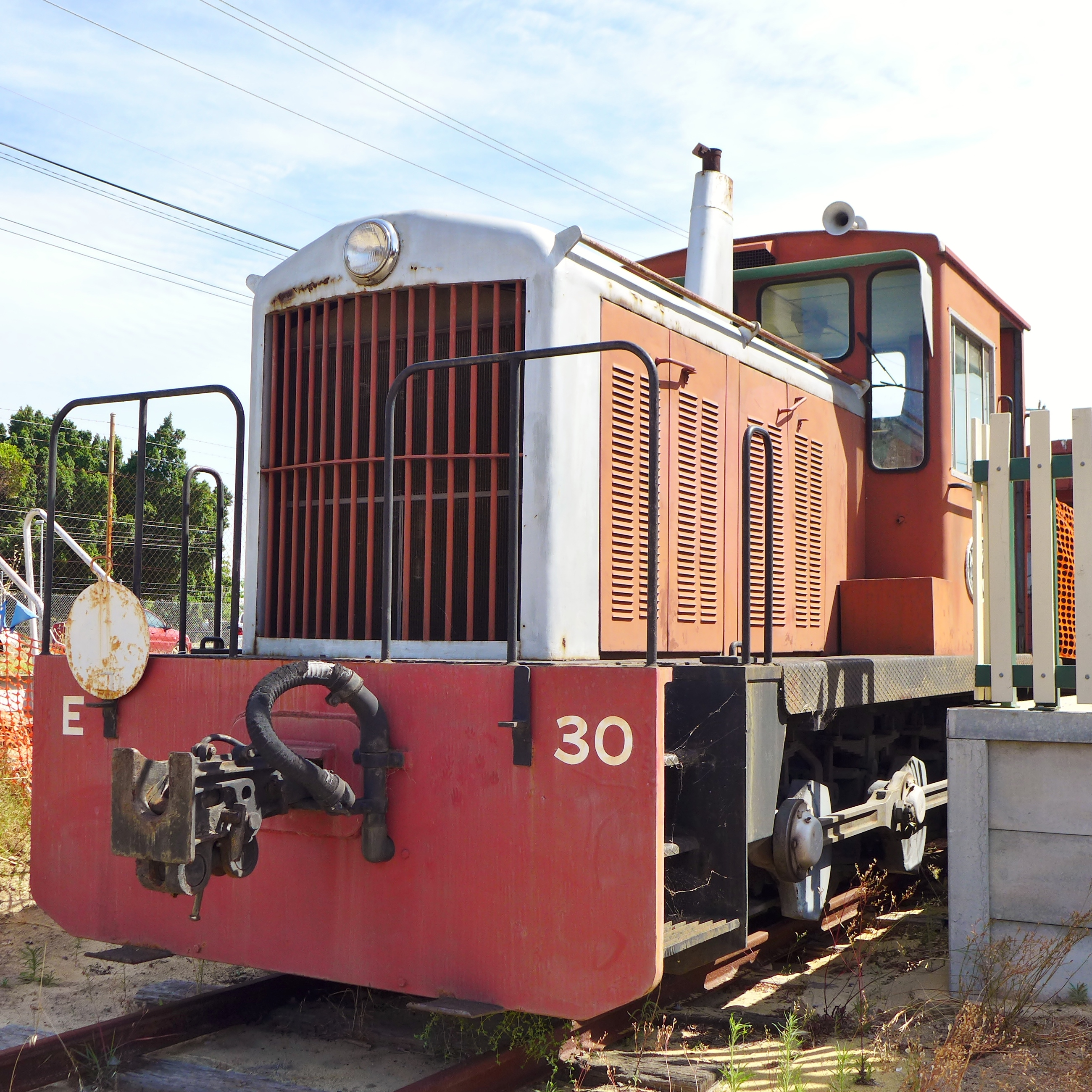 MRWA E class shunting (switching) locomotive, no. E30, preserved at the Railway Museum, Bassendean, Western Australia.